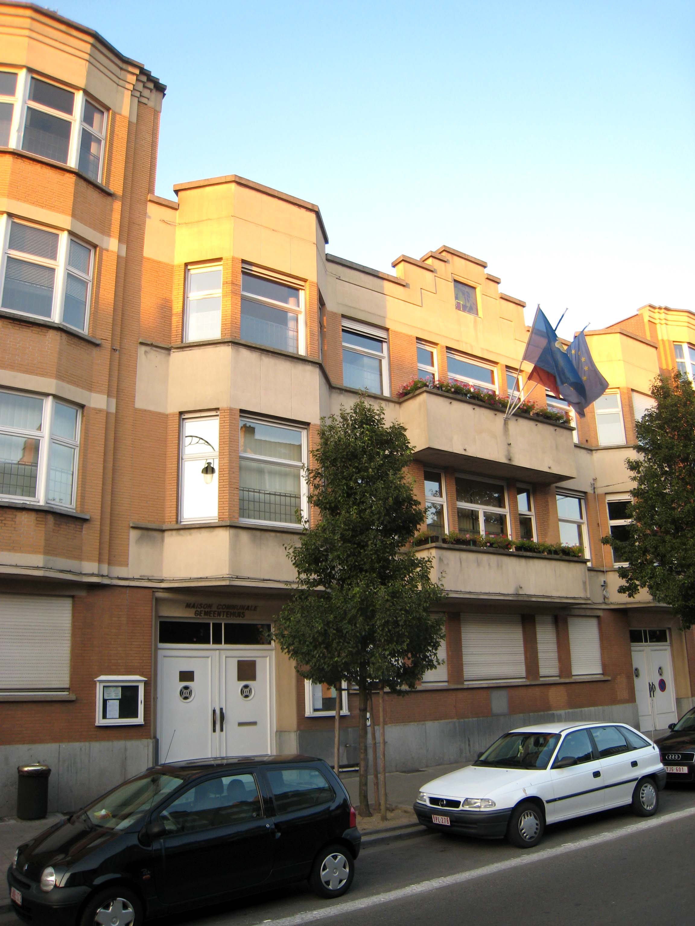 Ganshoren town hall (maison communale / gemeentehuis)